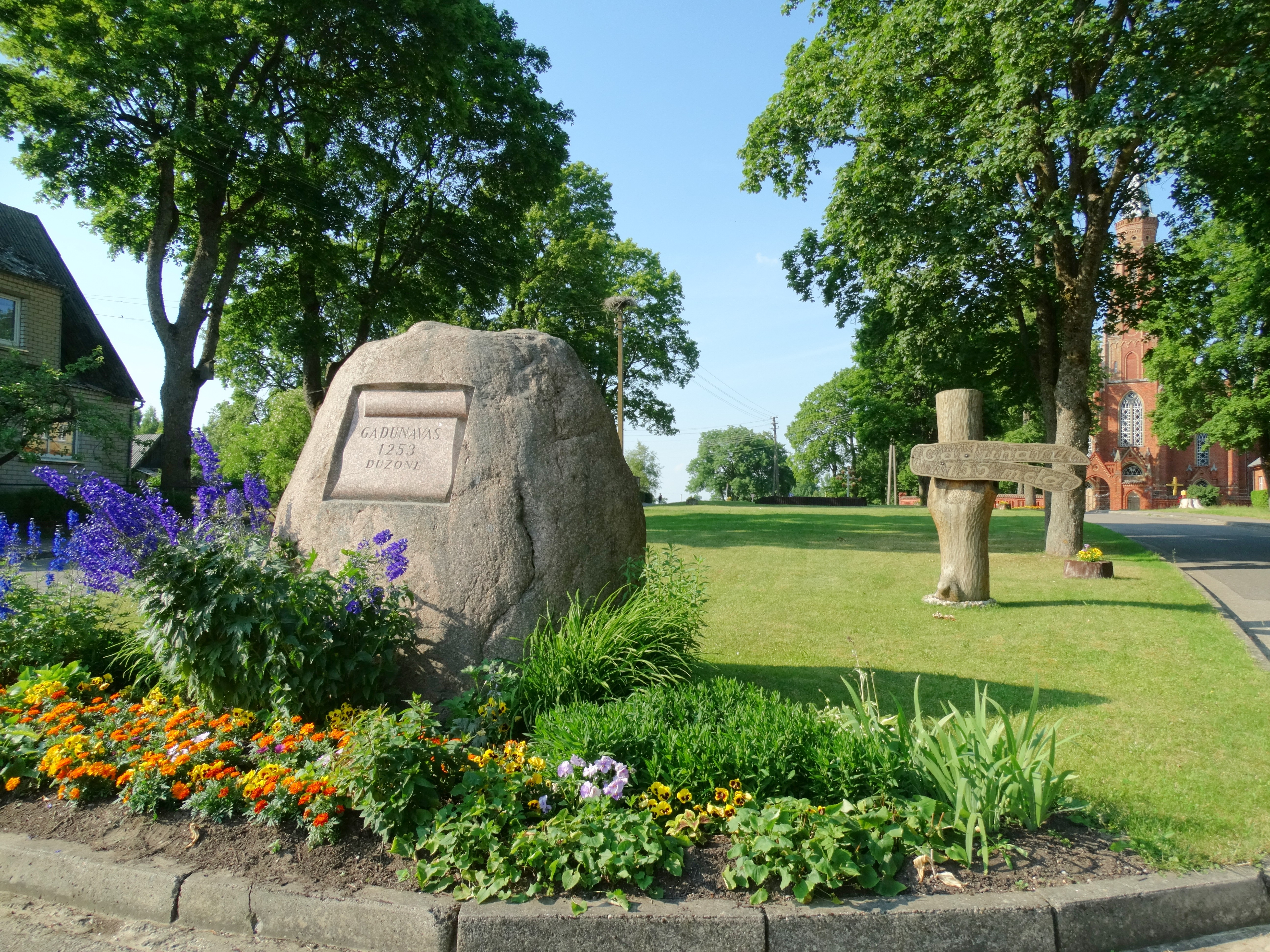 Gadūnavas, Telšiai district, Lithuania